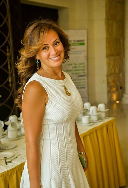 This image is a personal photo for Iman Mutlaq, a Jordanian powerful Women and entrepreneur. and it is uploaded to be listed in (Iman Mutlaq ) article Free to use the photo for Wikipedia purpose